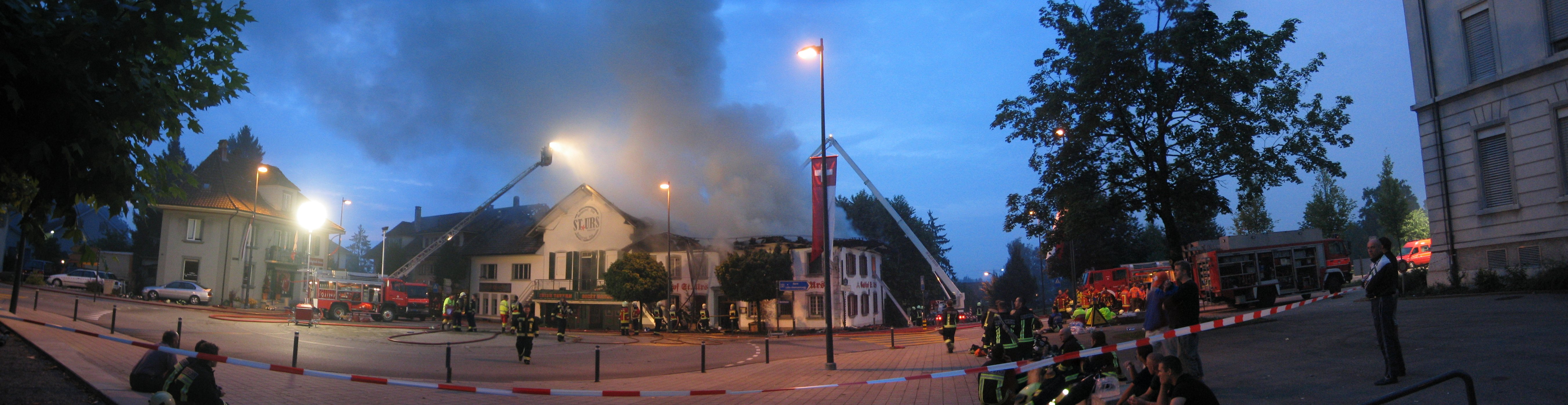 A panorama